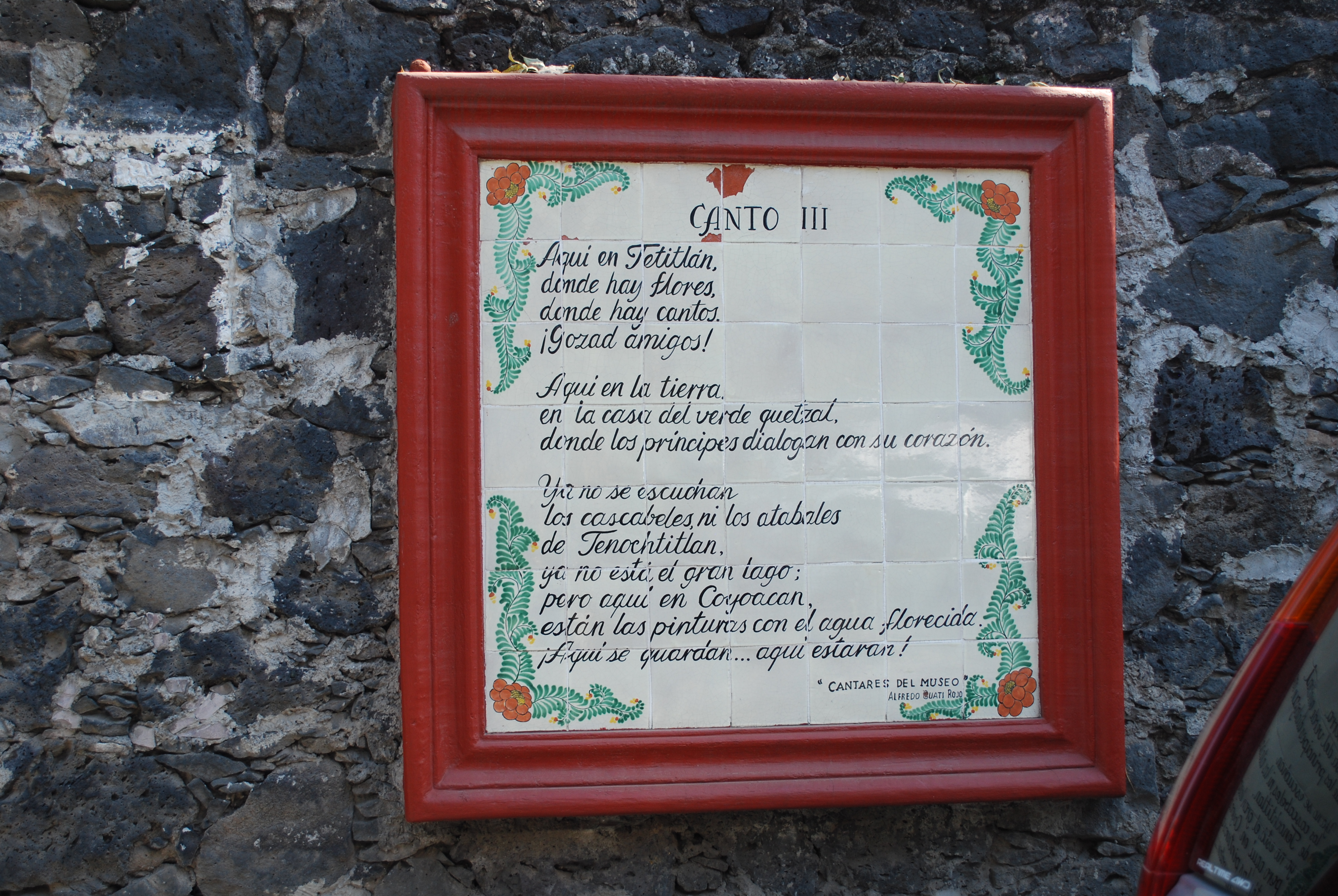 Tile plaque on the outside wall of the Museo Nacional de Acuarela in Coyoacan, Mexico City